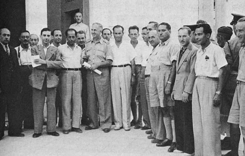 Transfer of control from the Israeli military governor to the first civilian mayor of Lod, Pesach Lev, April 1949. Edits by Ynhockey: Grayscale, retouch (removed dust and scratches)